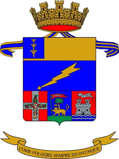 Coat of Arms of the 185° Parachutist Reconnaissance (former Artillery) Regiment “Folgore”; Italian Army.